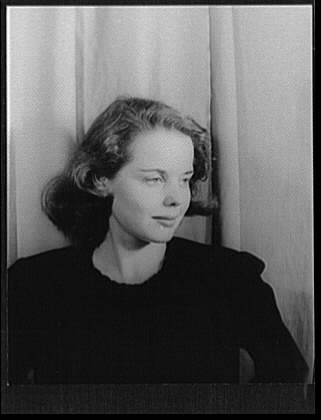 Title: Portrait of Beatrice Pearson Abstract/medium: 1 photographic print : gelatin silver.